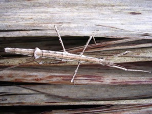 A female Tectarchus salebrosus on cabbage tree, Banks Peninsula.